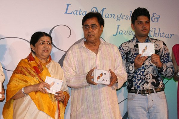 Lata Mangeshkar releases music album Saadgi